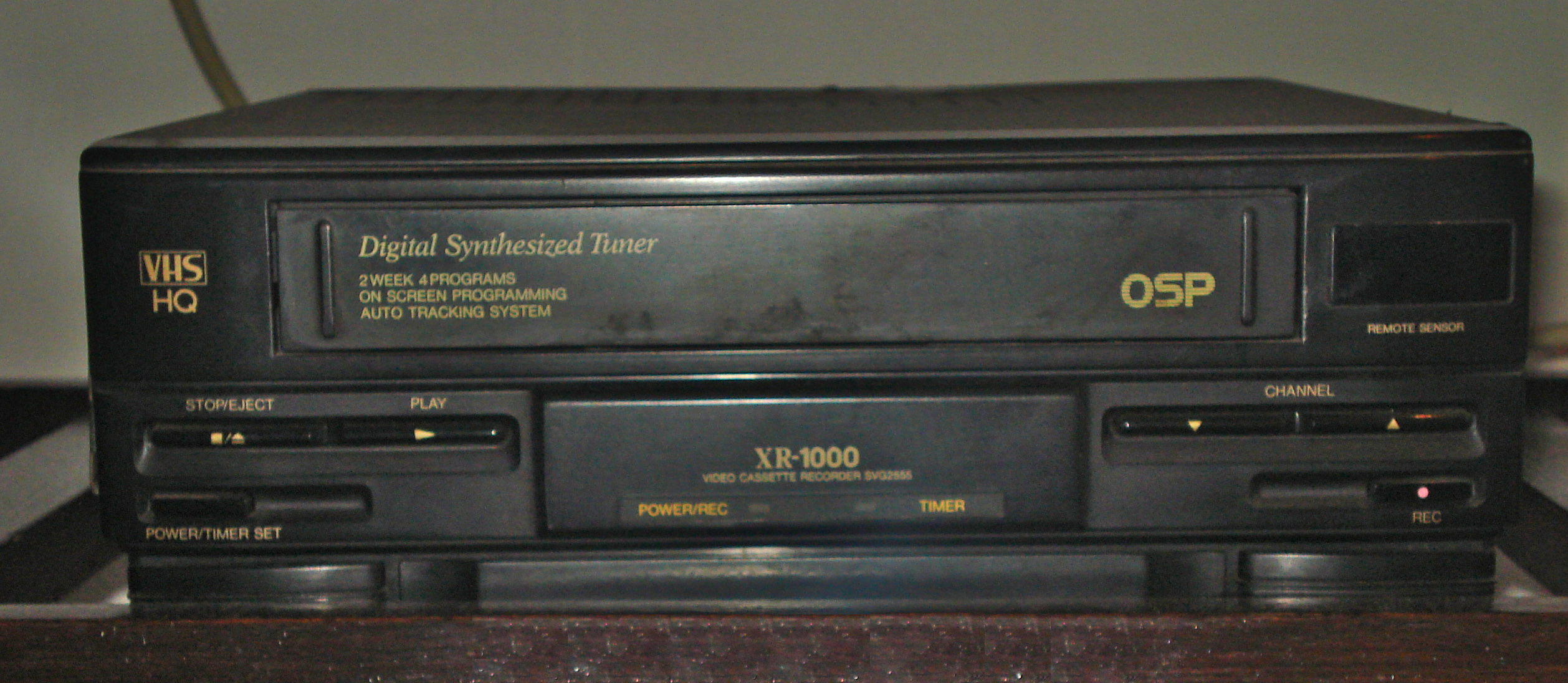 Video Cassette Recorde XR-1000